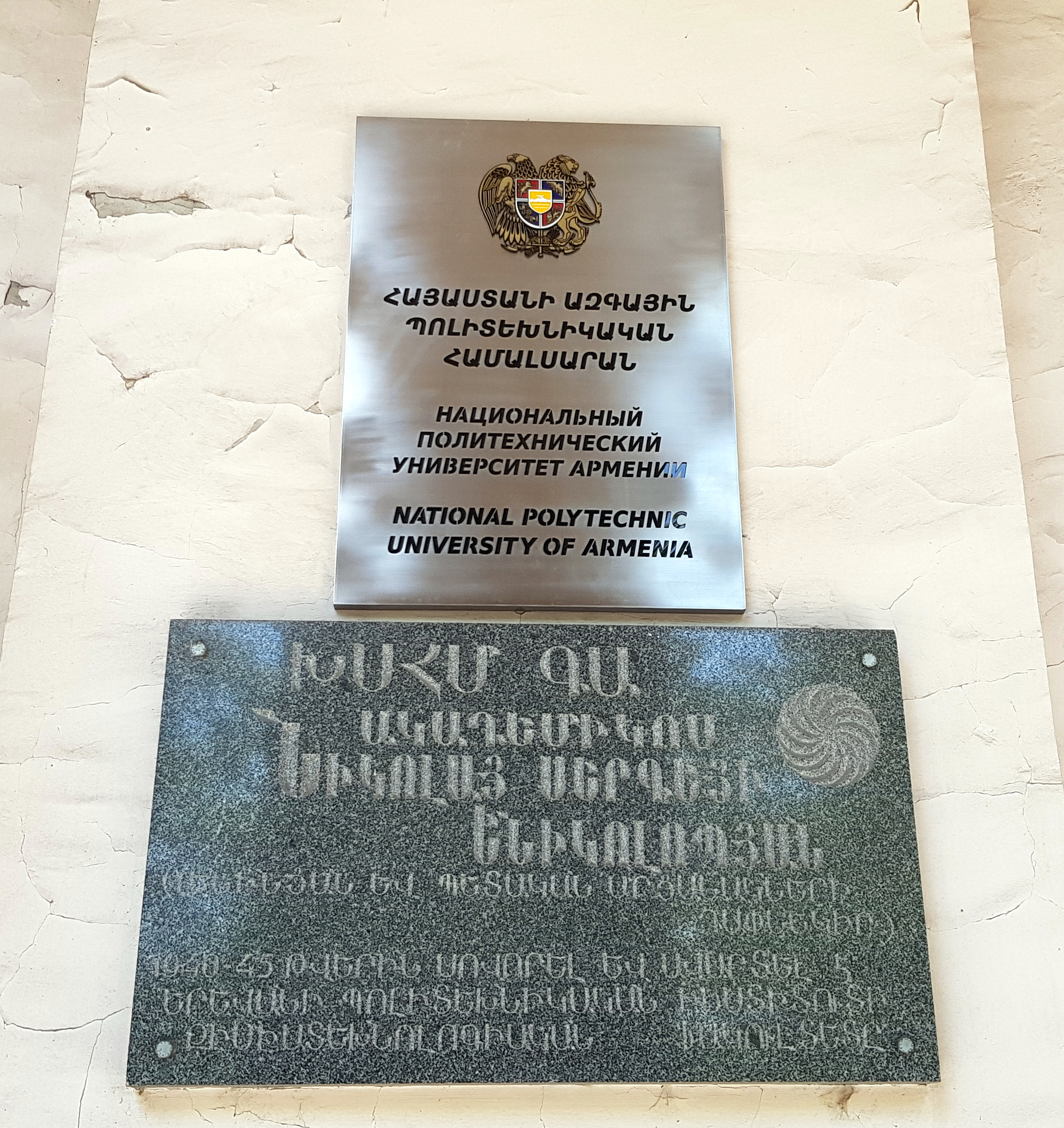 Plaque on National Polytechnic University of Armenia, building 1